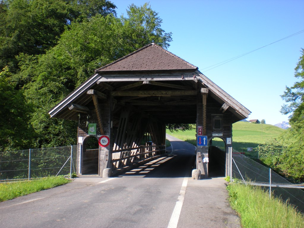 Hohe Brücke, a wooden Bridge in canton Obwalden, Switzerland, build 1943, north-eastern side